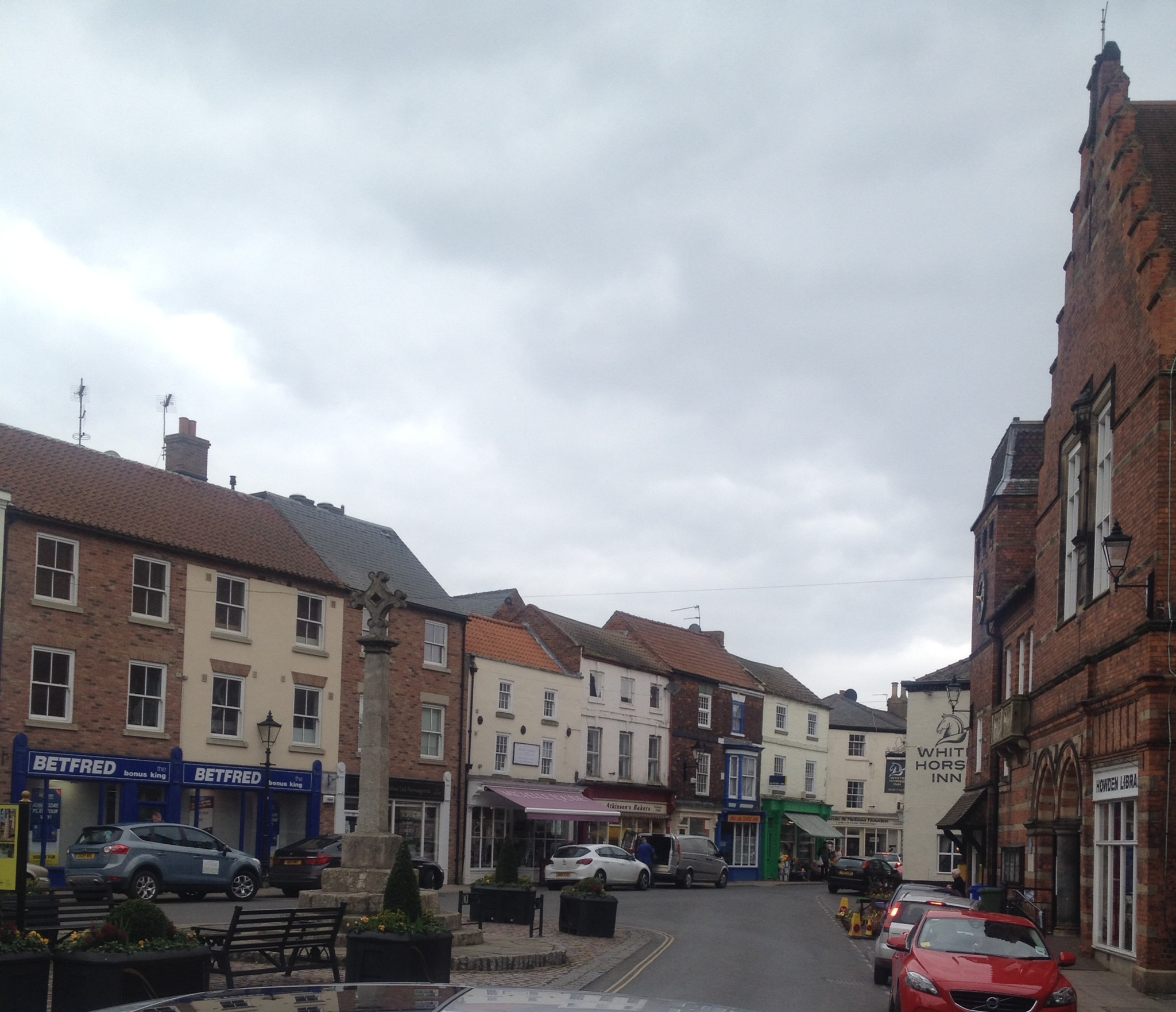 Howden Town Square, Howden, East Riding of Yorkshire, England.